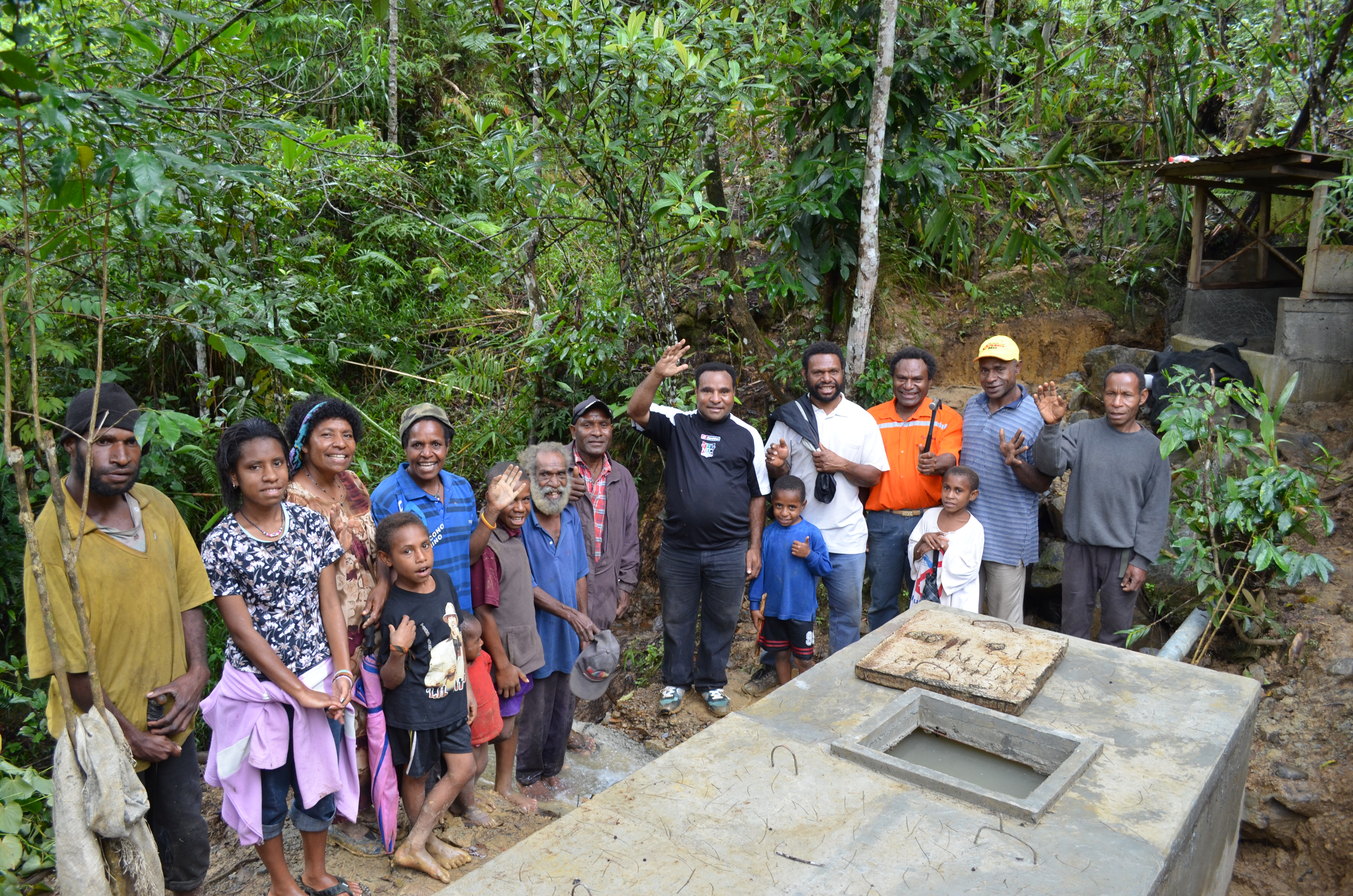 Papau New Guinea is a very different travel experience. Tribal customs, surfing, diving and hiking are the draw cards. Read about PNG on eGuide Travel